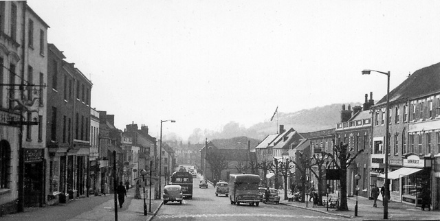 Bridport, West Street. View westwards down the broad West St., a generation or two ago.